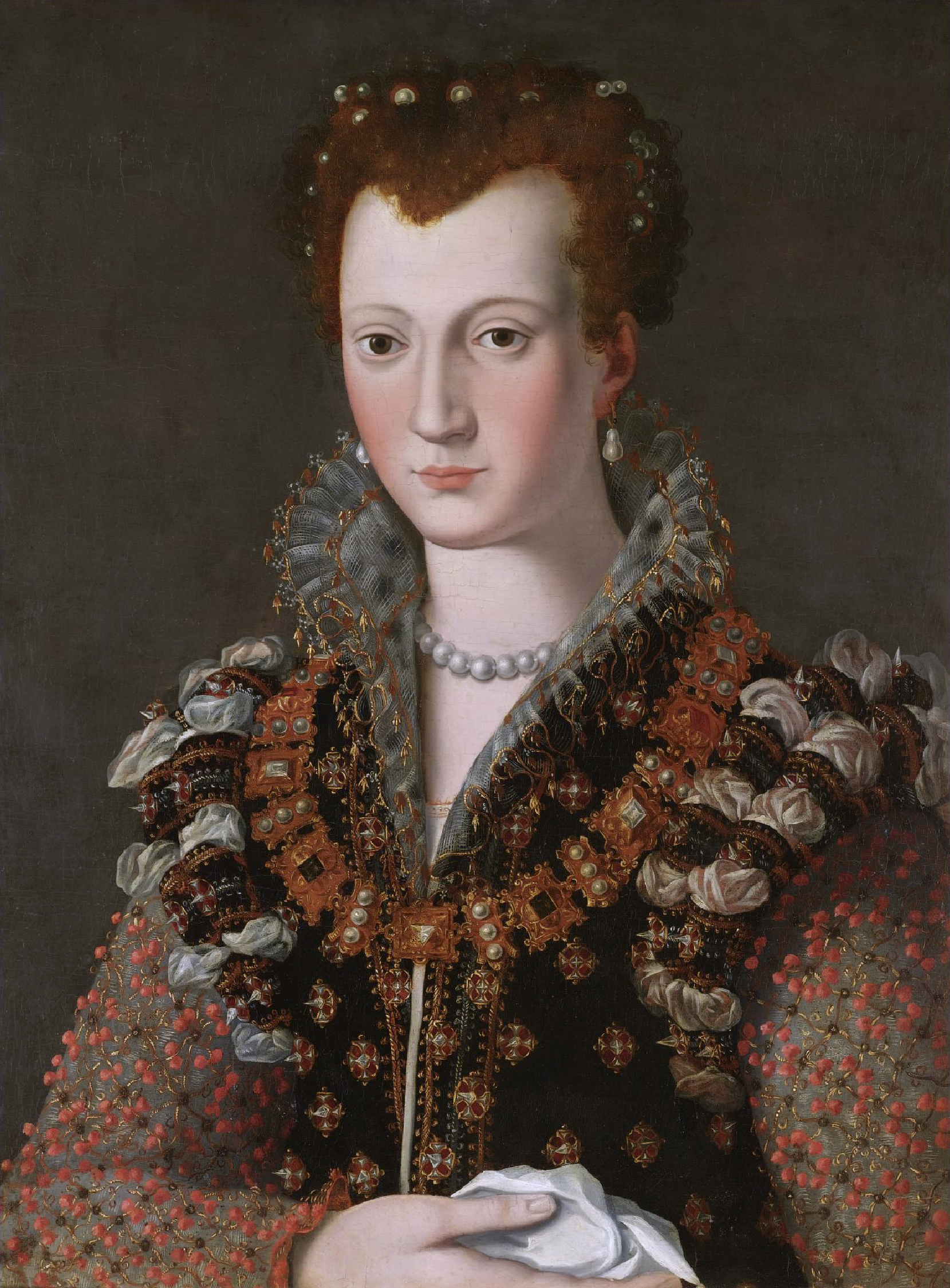 Portrait of Camilla Martelli (1545-1590), the second wife of Cosimo I de' Medici, formerly identified as Eleanor of Toledo (1522-1562), the first wife.